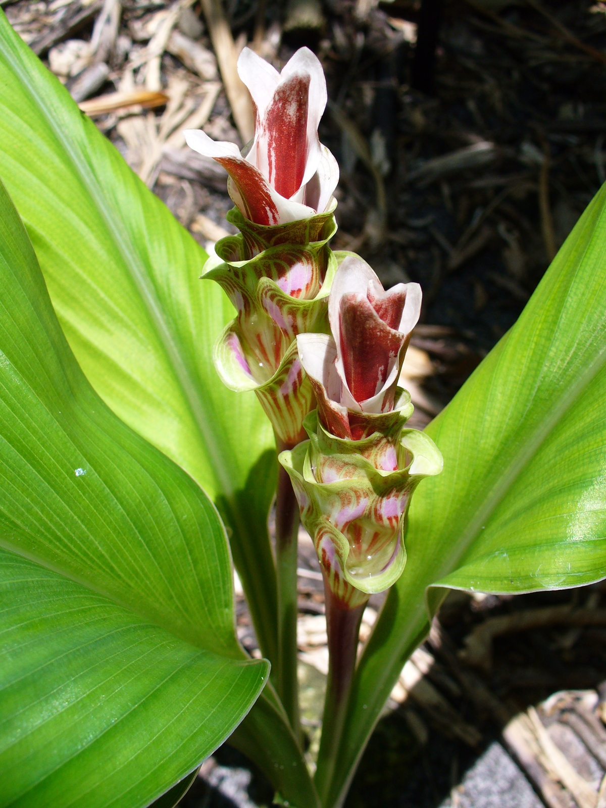 Curcuma gracillima at Fairchild Tropical Botanic Garden, Miami, FL, USA